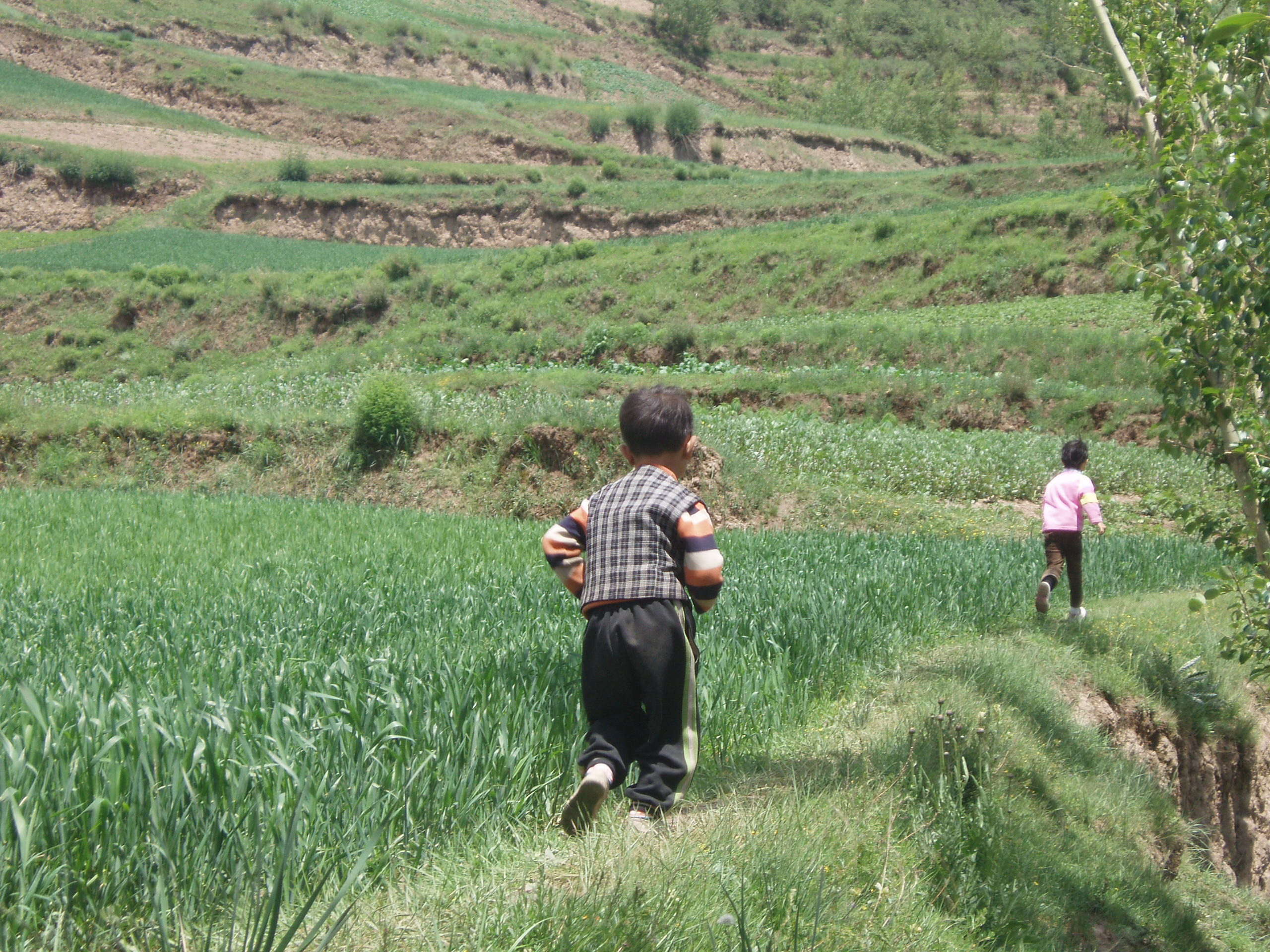 Children running in wheat-field, near Datong, Qinghai, China